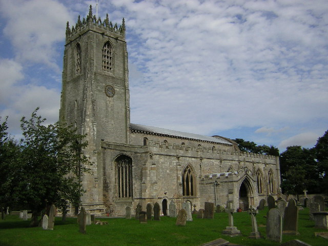 Blyth Church. The Priory church of Saint Mary & Saint Martin looks very gothic from the outside, but hides a great Norman nave of c1100 on the inside. A fragment of a much larger priory church and architectural hotch potch.